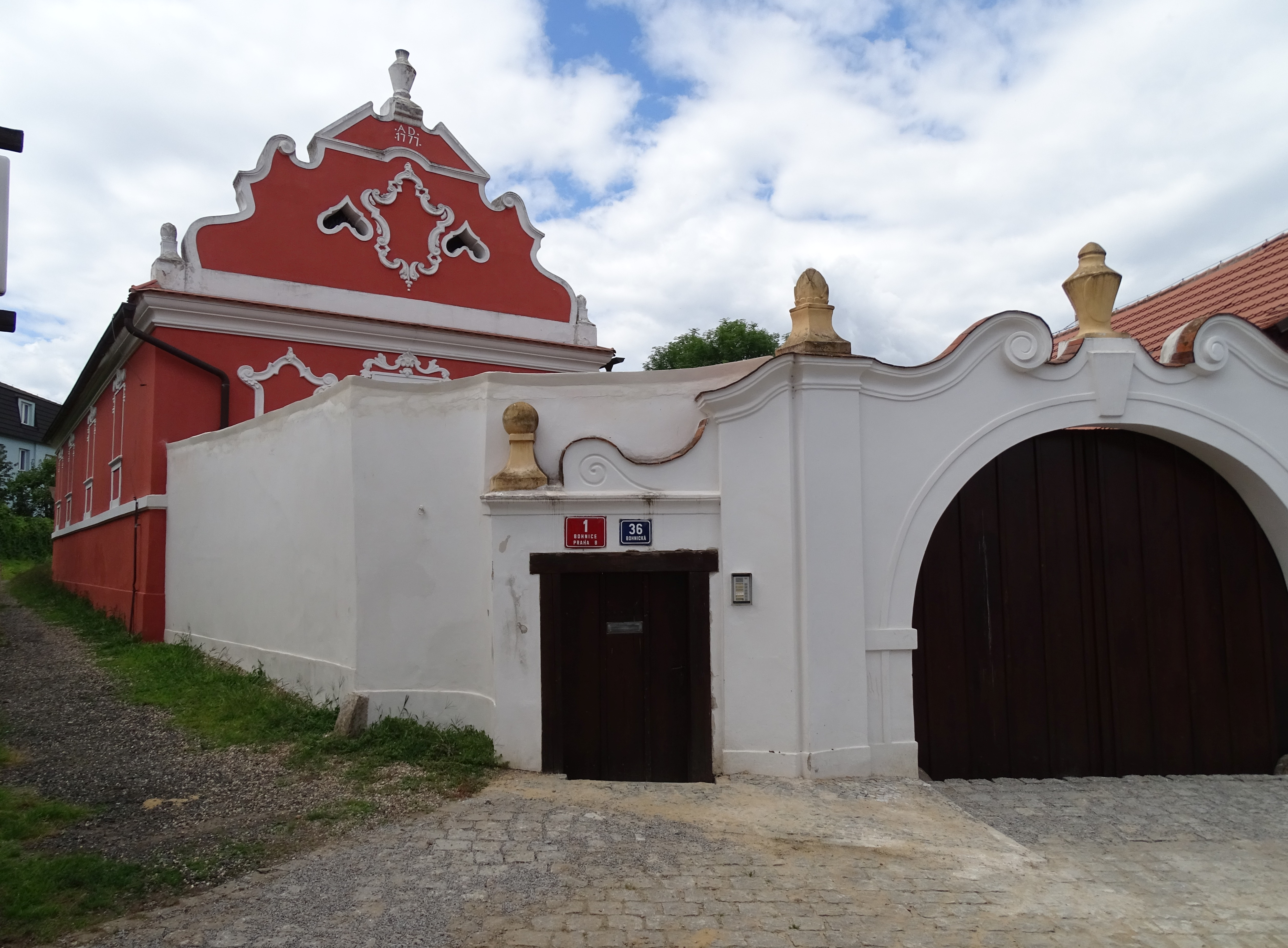 Prague-Bohnice, Czech Republic. Bohnická 1/36.